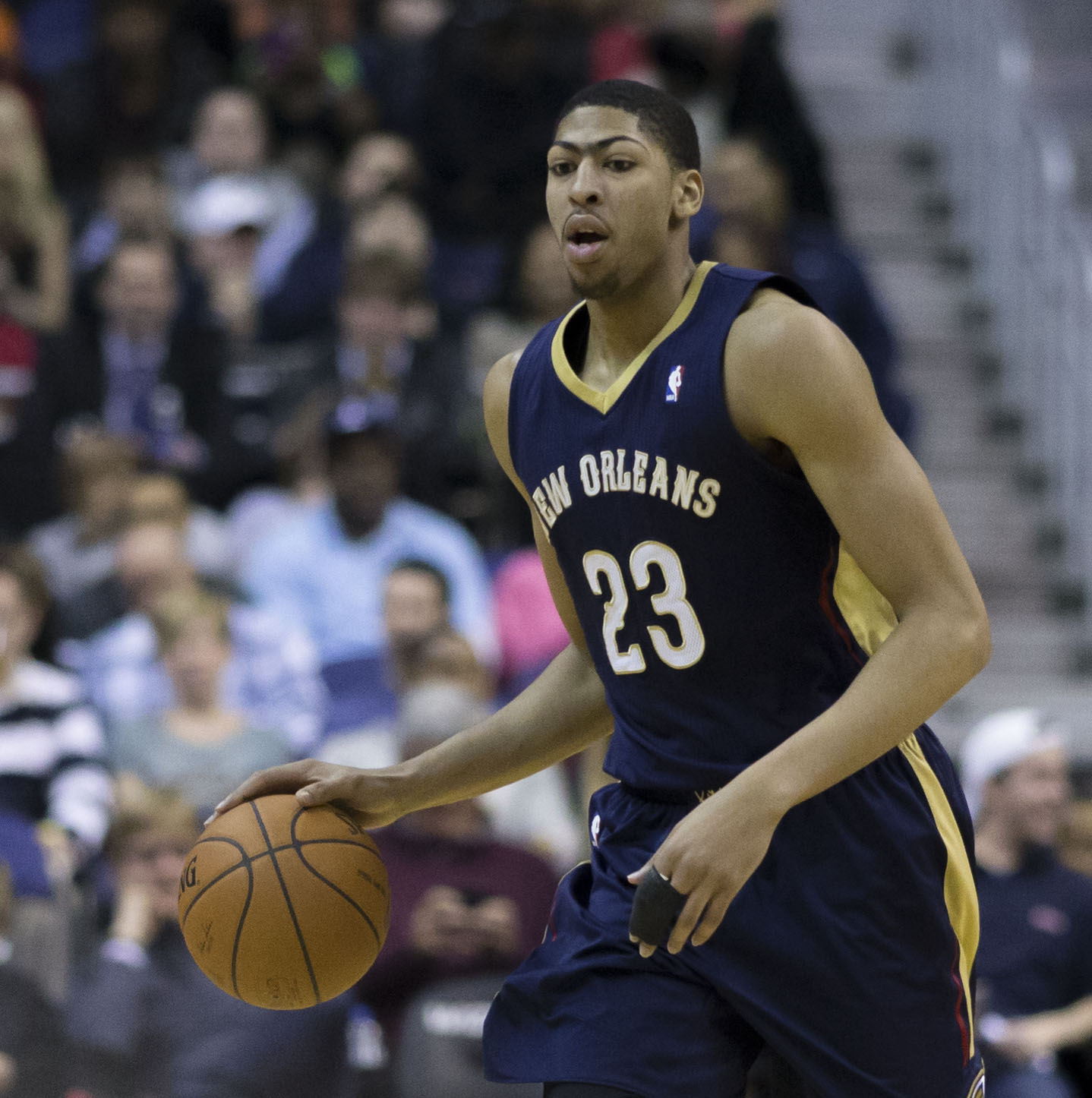 Pelicans at Wizards 2/22/14